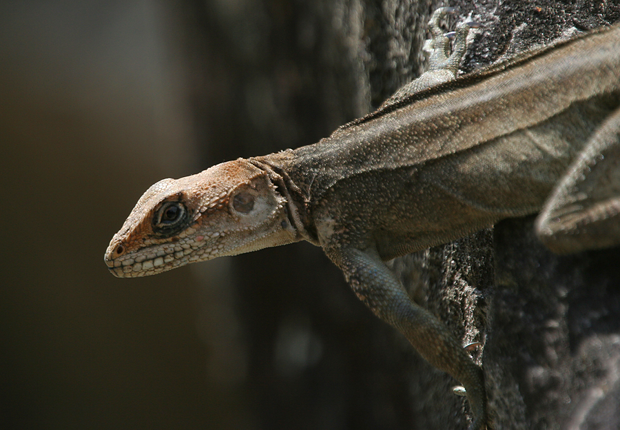 Kashmiri Rock Agama. Looks like an animal from the ancient times. Taken at Kasol (6500 ft.) recently during Sar Pass Trek in Kullu District of Himachal Pradesh, India.